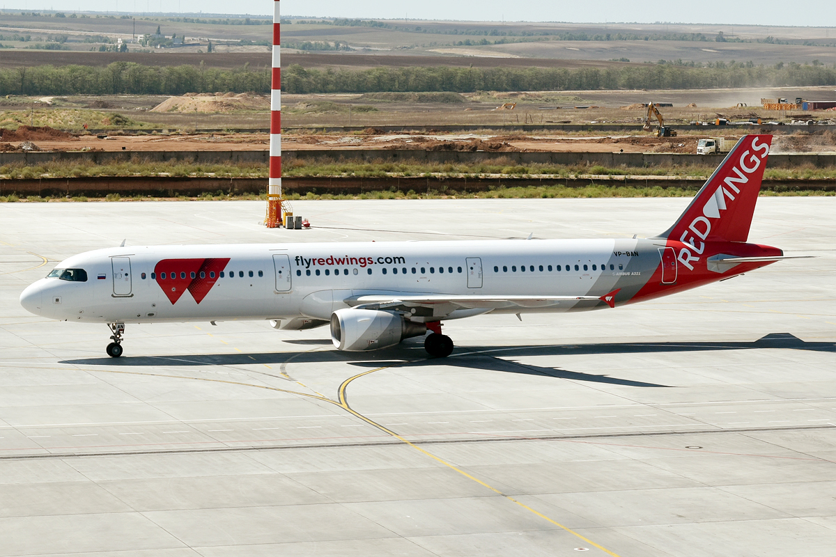 Red Wings, VP-BAN, Airbus A321-211